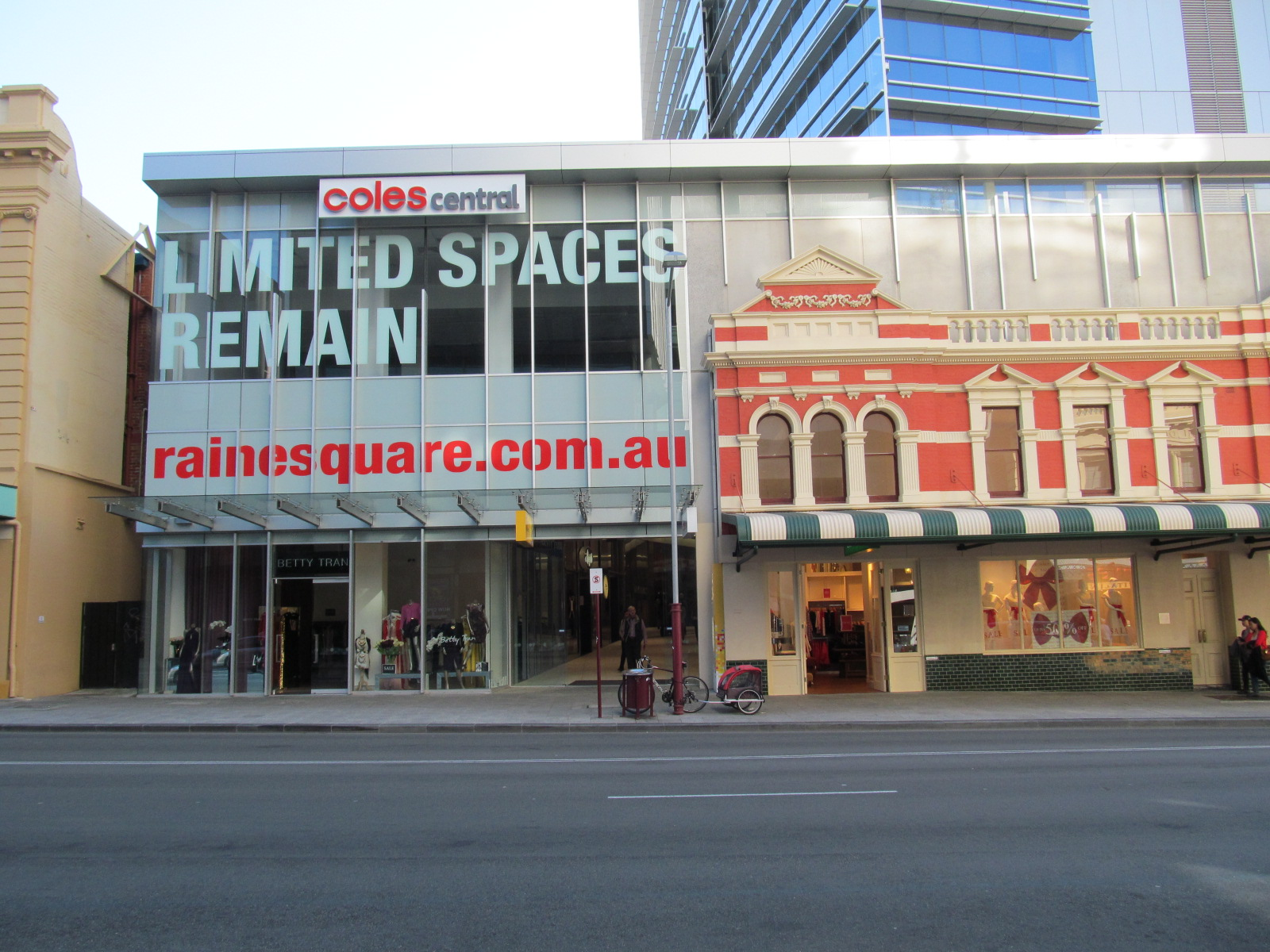 Raine Square, Perth, Western Australia in June 2013.